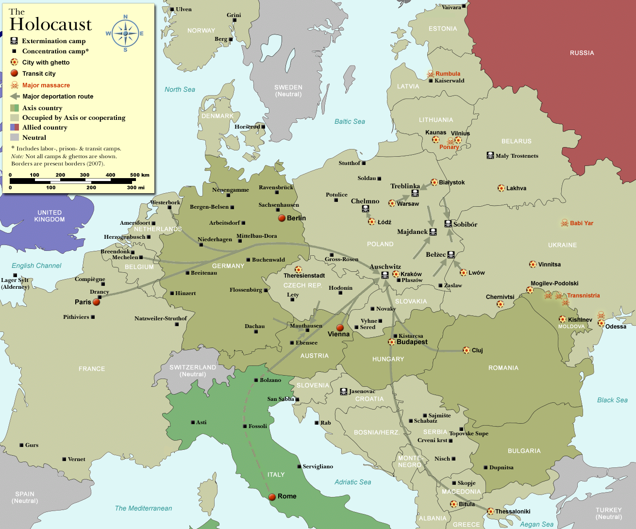 Map of the Holocaust in Europe during World War II, 1939-1945. This map shows all extermination camps (or death camps), most major concentration camps, labor camps, prison camps, ghettos, major deportation routes and major massacre sites. Please note that a version with 1942 borders is available here: Image:WW2-Holocaust-Europe.png. Notes: 1. Extermination camps were dedicated death camps, but all camps and ghettos took a toll of many, many lives. 2. Concentration camps include labor camps, prison camps & transit camps. 3. Not all camps & ghettos are shown. 4. Borders are present borders (2007). Übersetzung der "Notes" bis hierher: 1. Extermination camps = Vernichtungslager als Fachbegriff für ganz bestimmte Konzentrationslager. 2. Concentration camps umfassen hier auch Arbeitslager, Gefängnislager und Transitlager. 3. Nicht alle Konzentrationslager werden gezeigt. 4. Die Namen der Konzentrationslager und die Pfeile für die Deportation sind in Karten des modernen Nachkriegseuropas eingetragen.